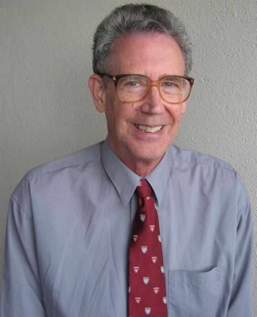 Walton T. Roth in 2010